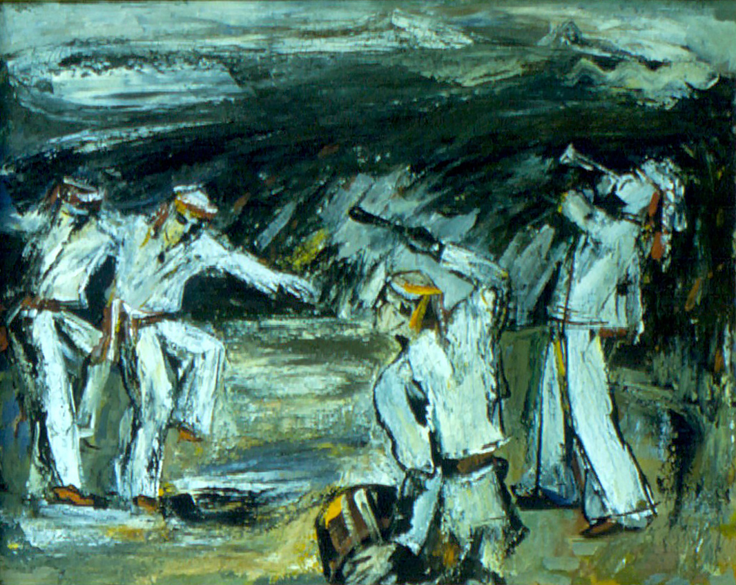 Sassounian dance